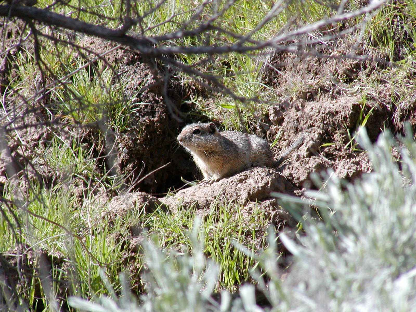 Image title: Southern Idaho ground squirrel in native habitat near burrow Image from Public domain images website